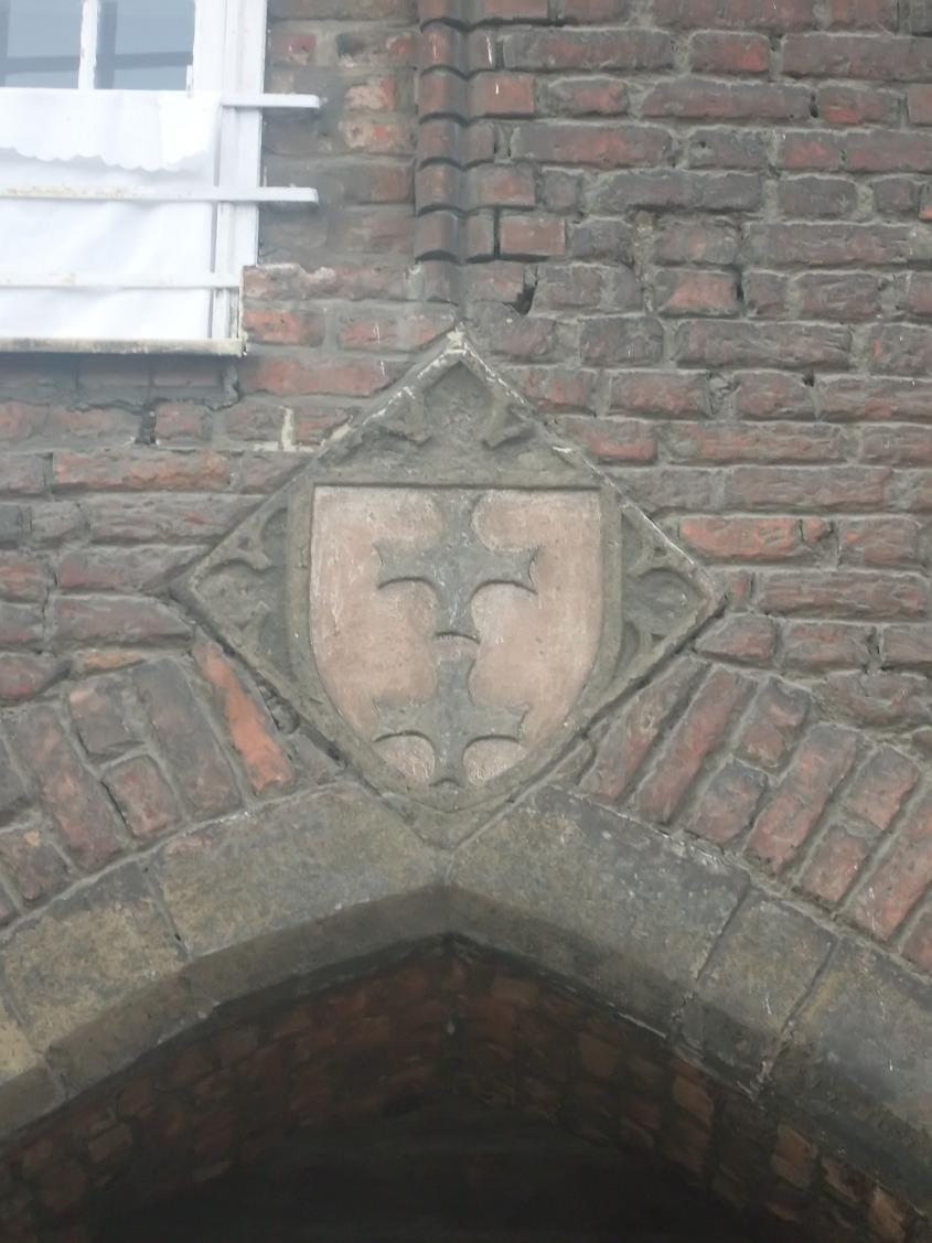 Former coat of arms of Gdańsk at Chlebnicka Gate in Gdańsk.